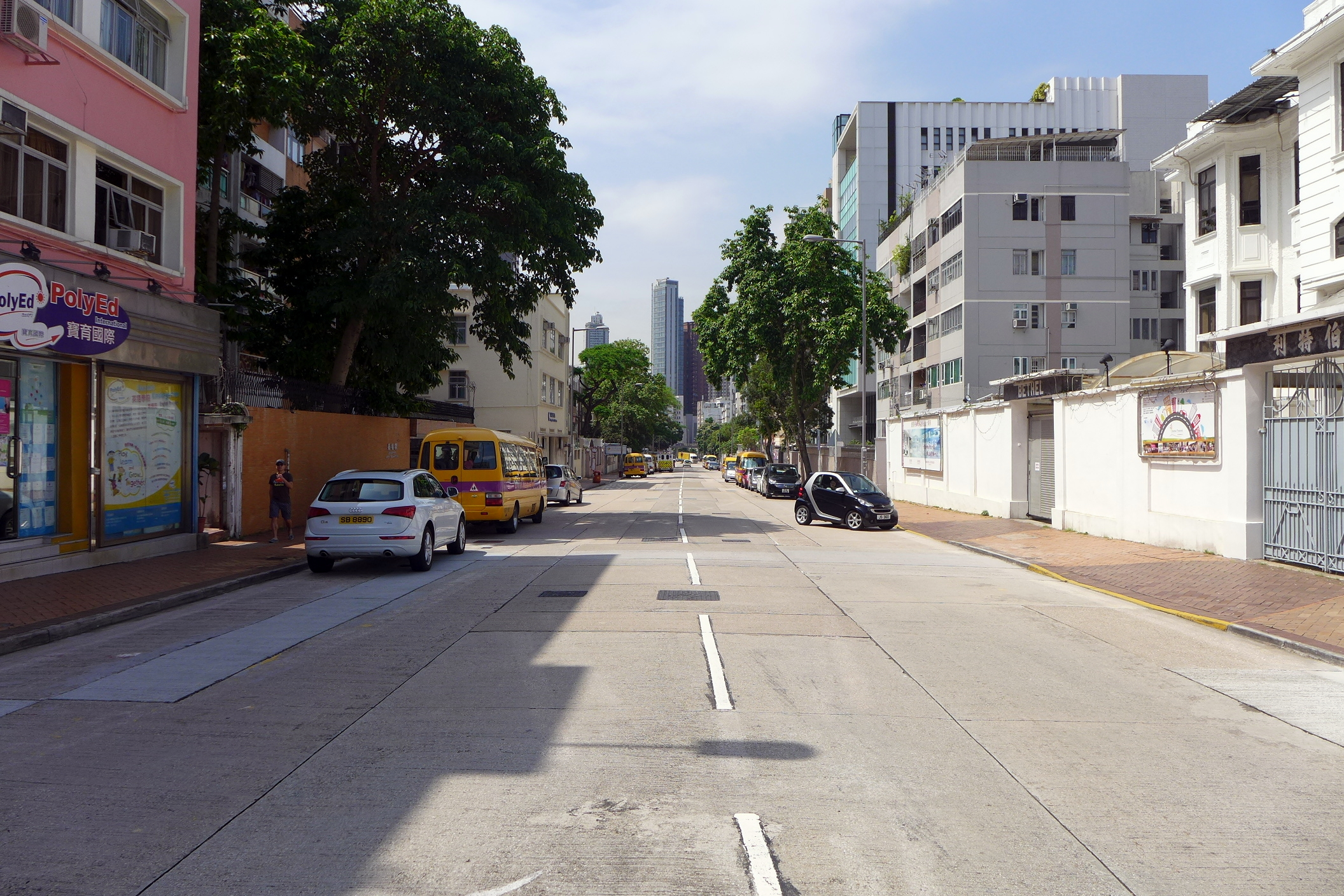 Inverness Road, Kowloon Tsai